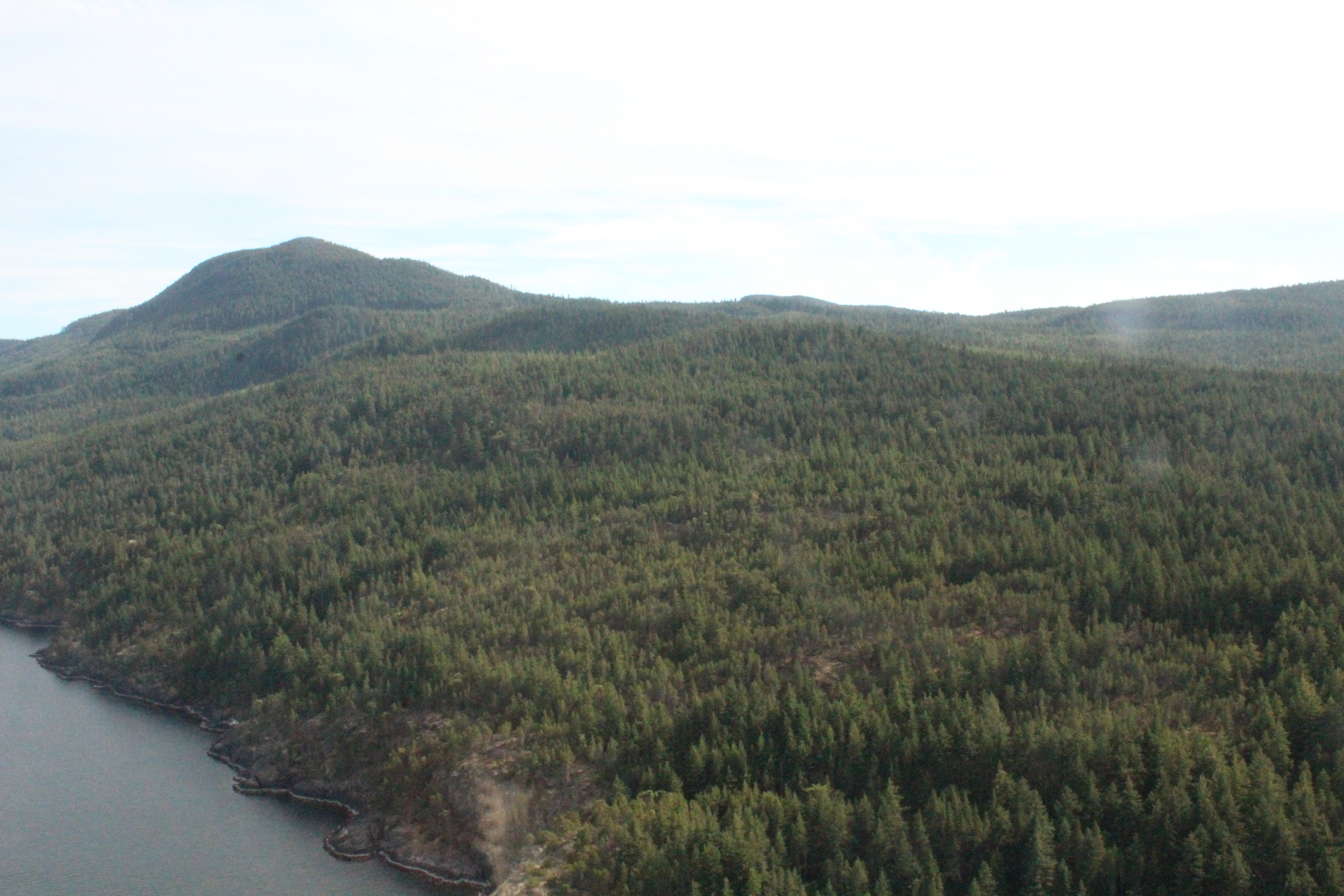 Texada Island from a floatplane